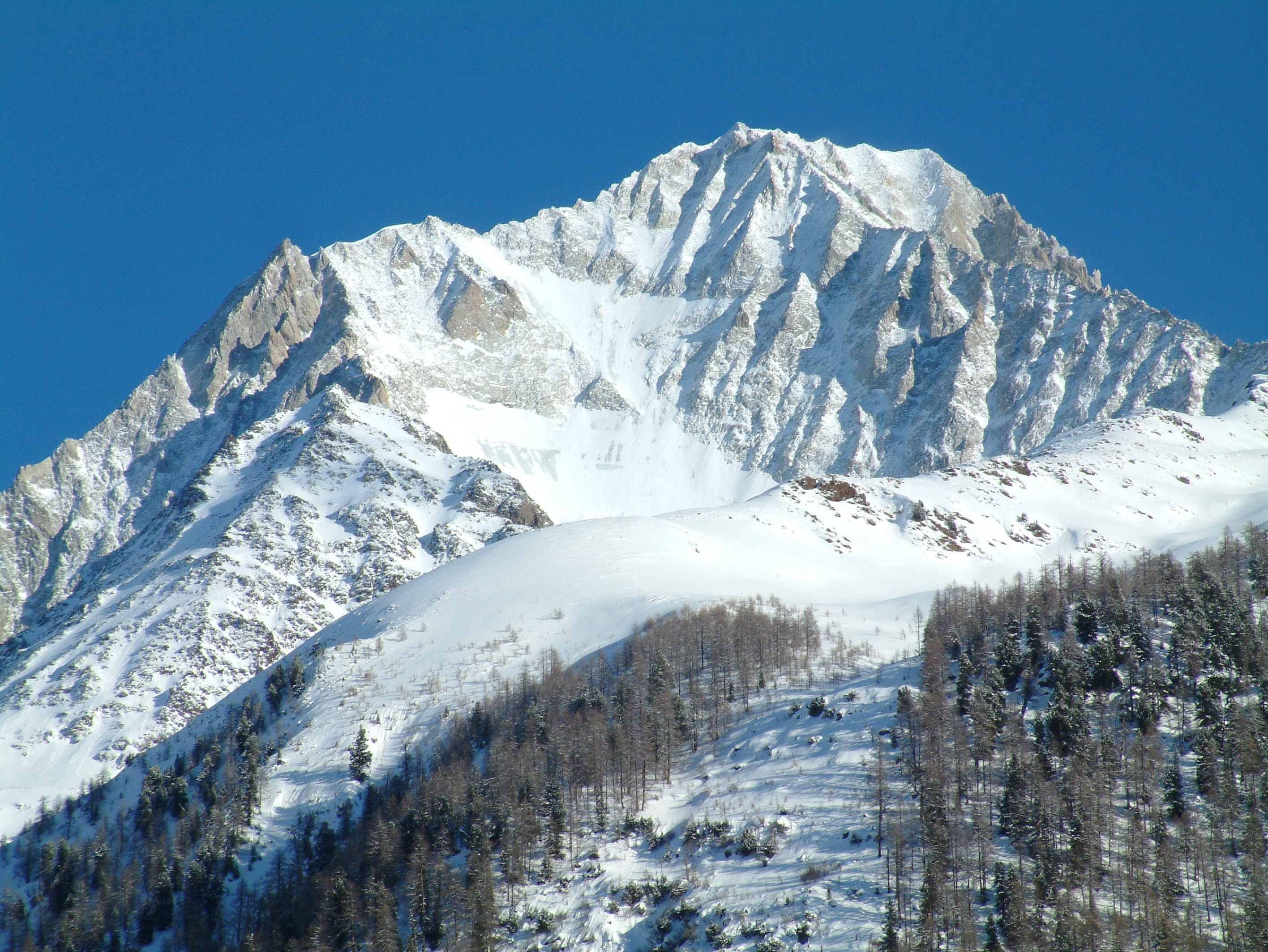 Bietschhorn (3994m), Bernese Alps / Switzerland. Seen from Wiler/Lötschental.